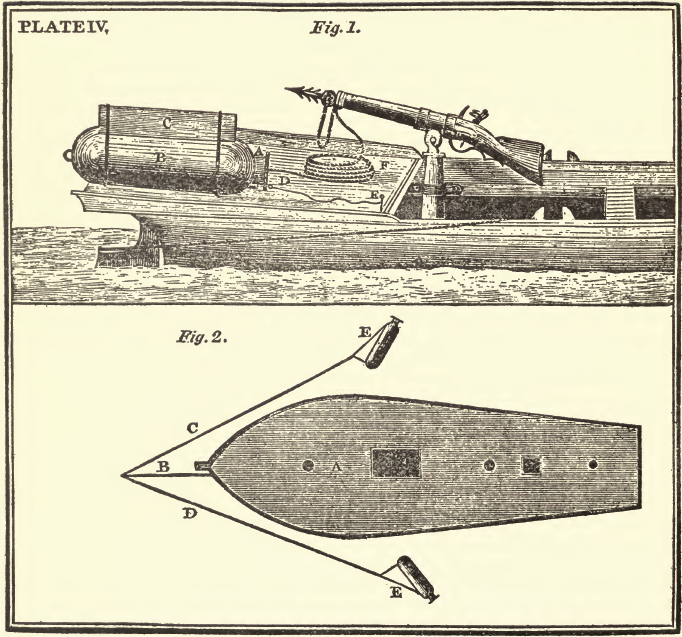 The modified Fulton's torpedoes as they were deployed against the Dorothea. "B" is the anchor cable. On the top side, torpedo boat with harpoon as invented by R. Fulton.